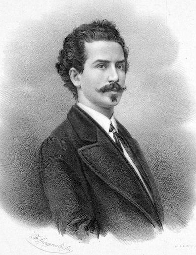 Italian opera composer Stefano Gobatti (1852-1913) by Francesco Spagnoli (18..-18..).